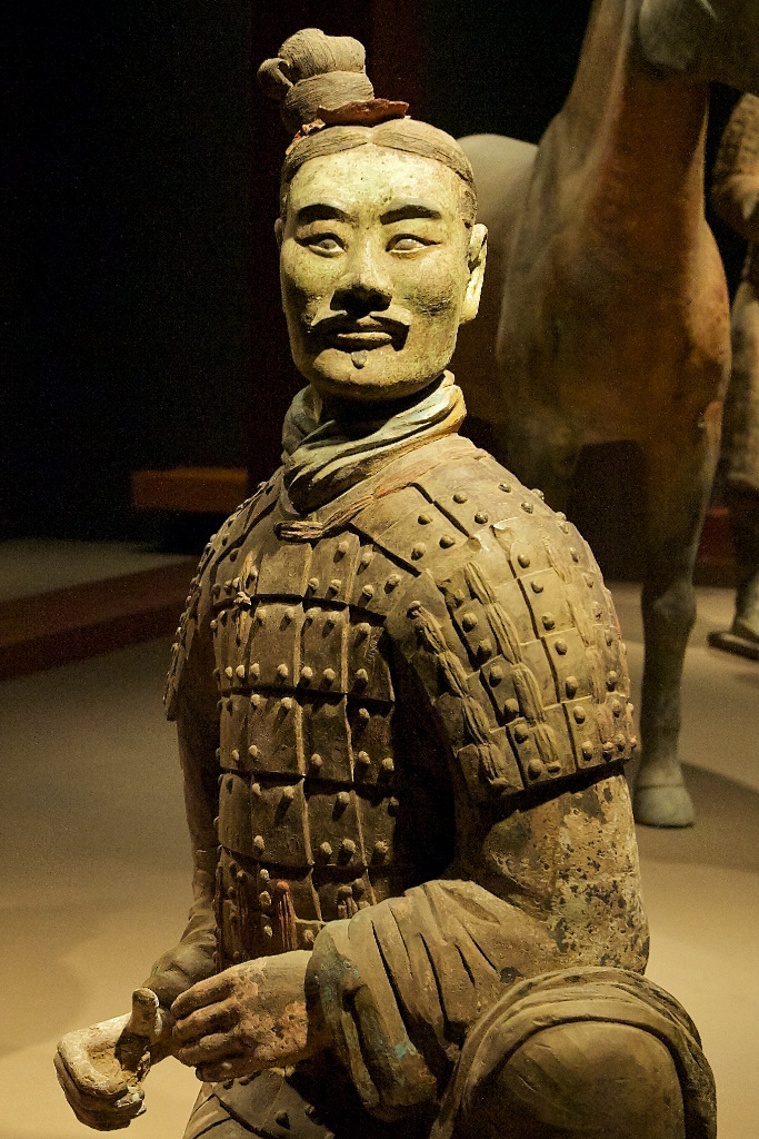 Close up of rare green warrior (archer), Bowers Museum in Santa Ana, California